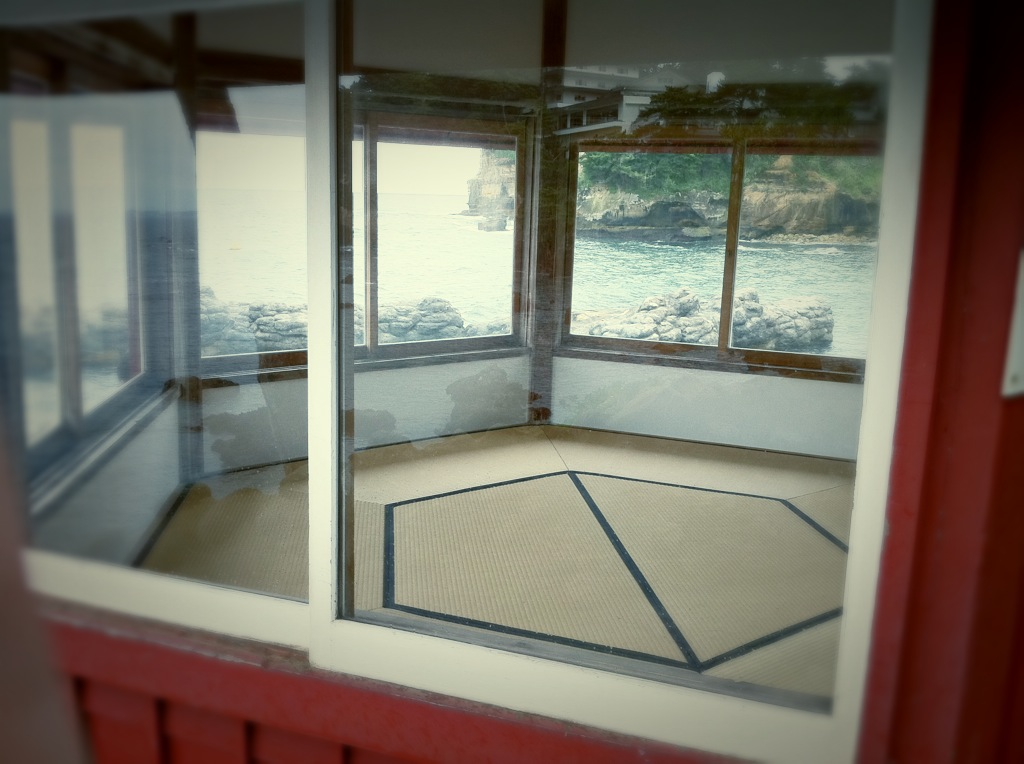 The interior of Rokkakudo in Kitaibaraki-city, Ibaraki-pref, JAPAN.